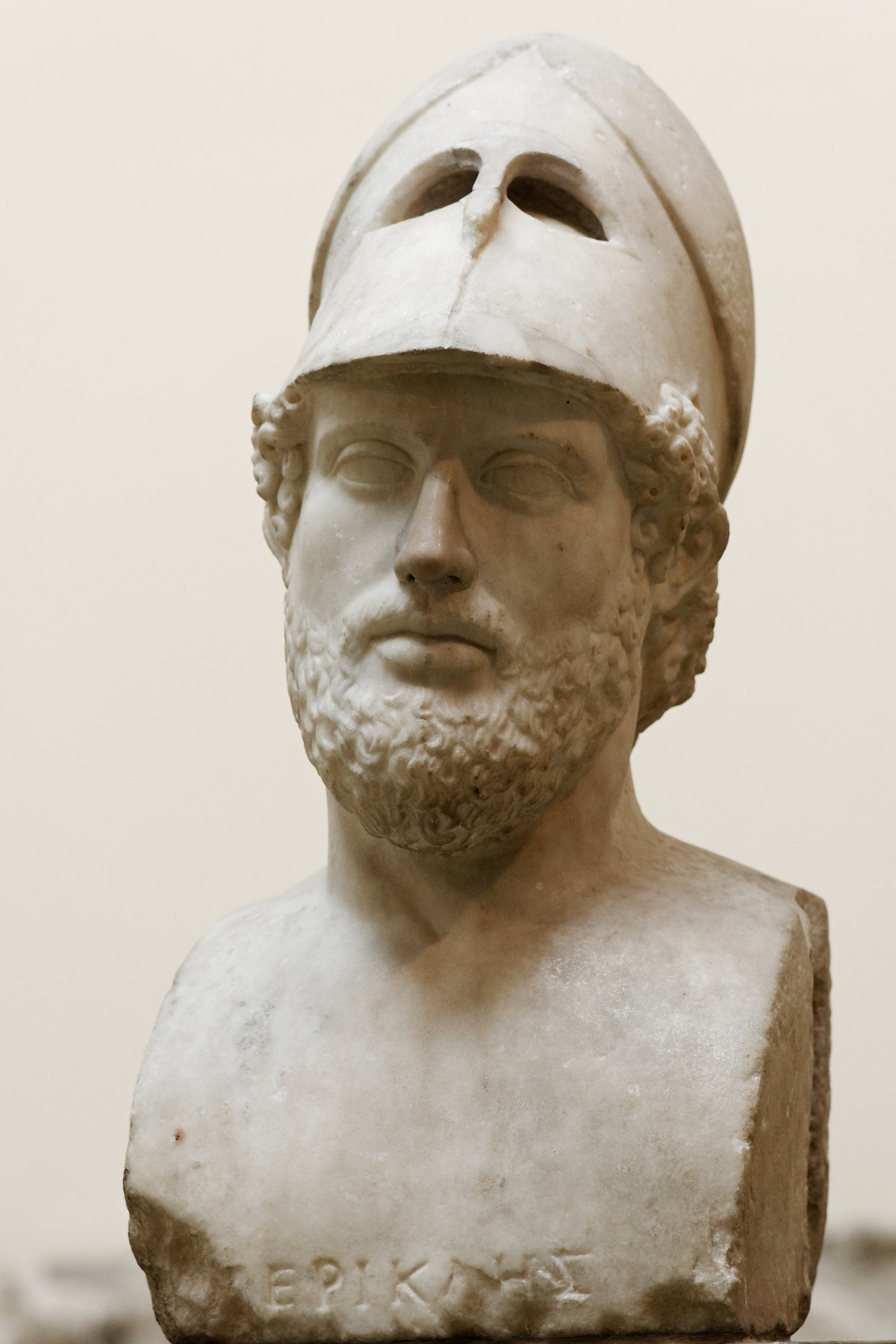 Idealised bust of Pericles. Roman copy of the 2nd century CE after a Greek original of the Late Classical era.